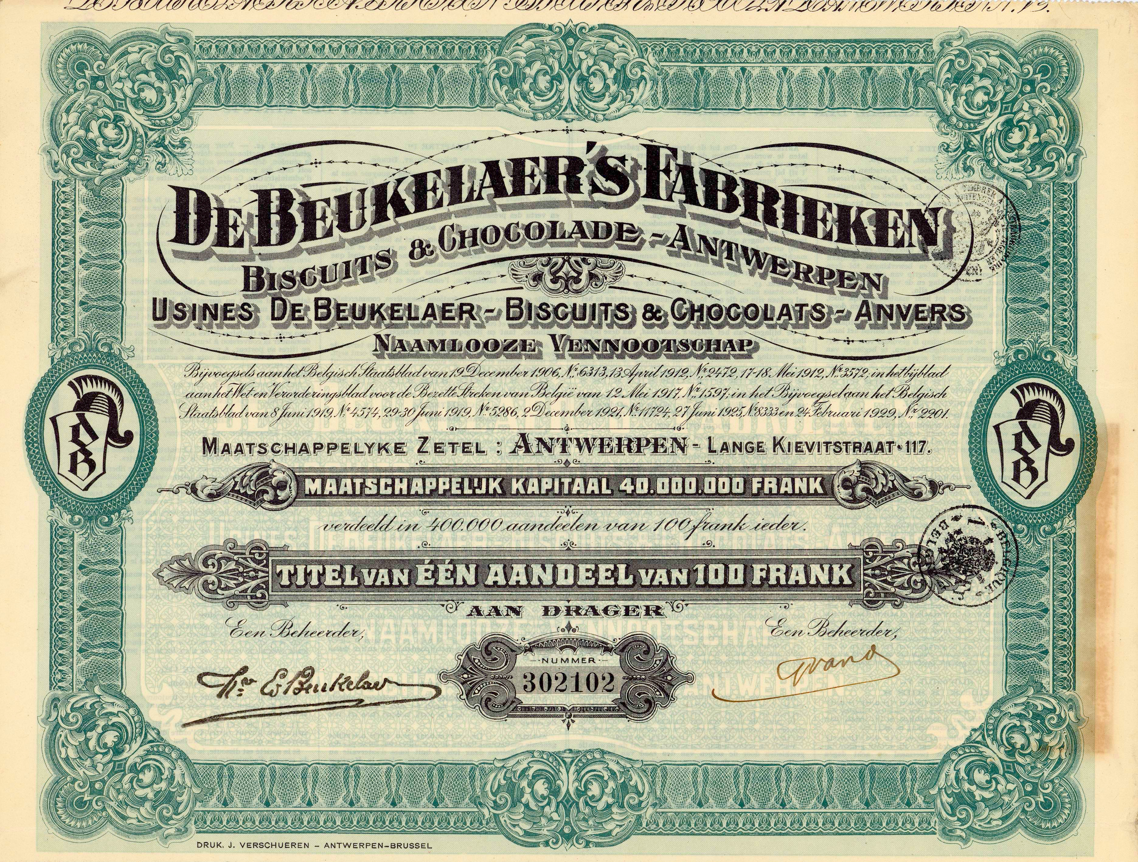 Share of the De Beukelaer‘s Fabrieken, issued 24. February 1929